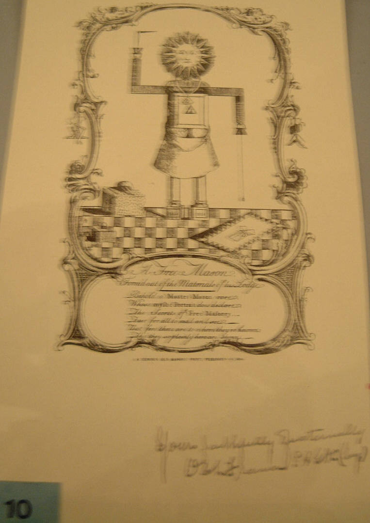 Graphic in Niagara Lodge 2 of the Freemasons Building in Niagara-on-the-Lake, Ontario, Canada.